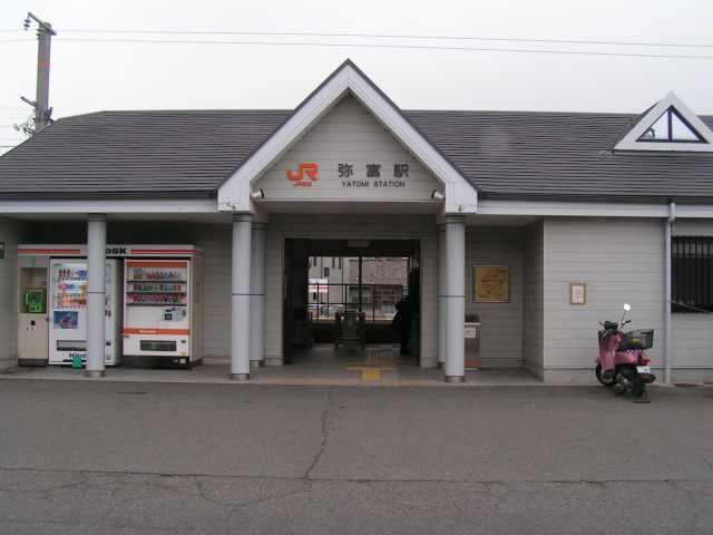 Yatomi Station, Yatomi, Aichi, Japan